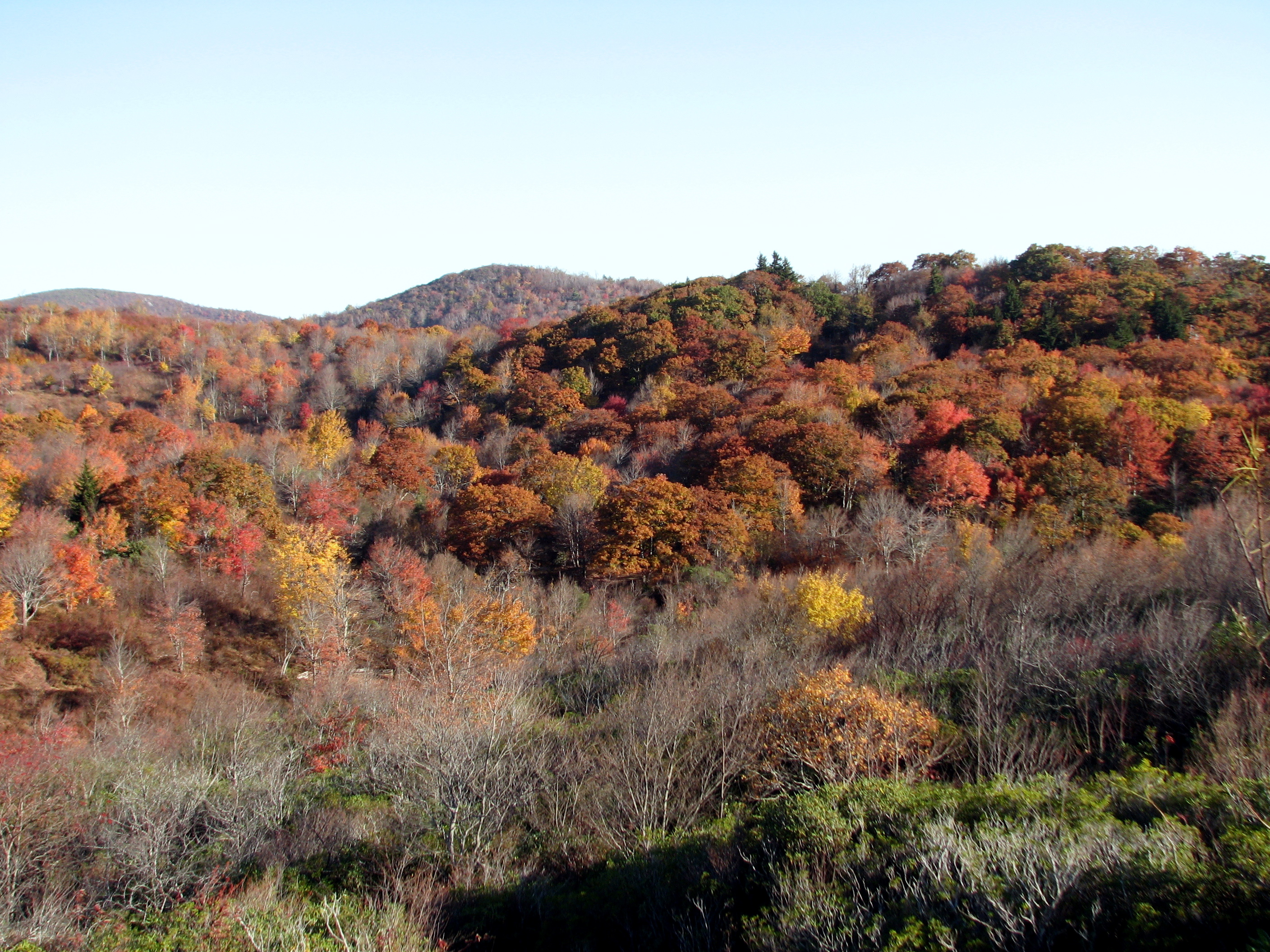 Autumn Colors Overlook View Graveyard Fields Blue Ridge. Taken in Haywood County, North Carolina